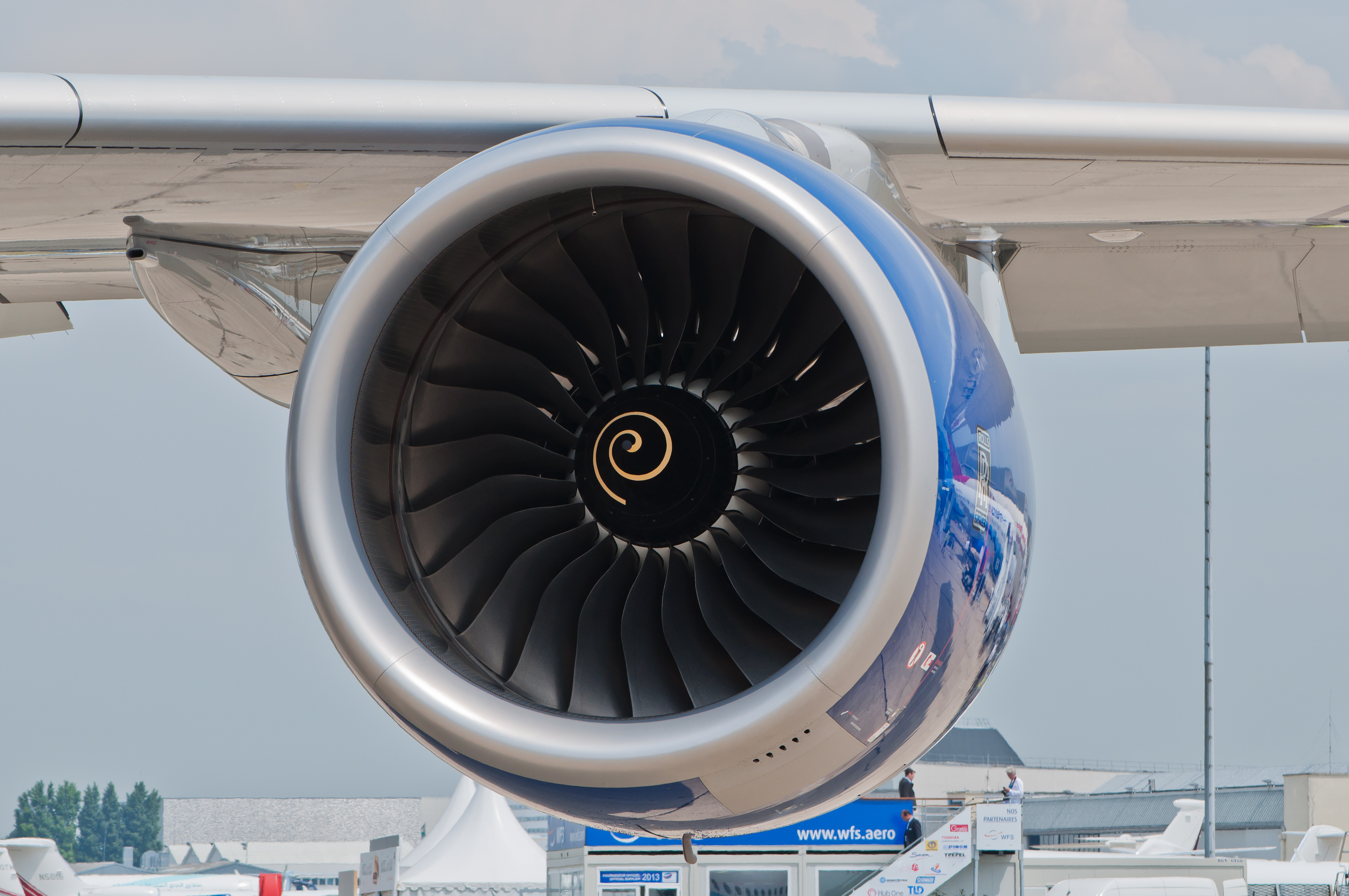 Trent 970 engine of an British Airways Airbus A380-841 (reg. F-WWSK, c/n 095, normally G-XLEA) at Paris Air Show 2013.